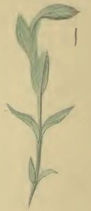 Stainton’s Natural History of the Tineina (1855–1873): Caryocolum fraternella a sprig of Stellaria uliginosa with the terminal shoot spun together